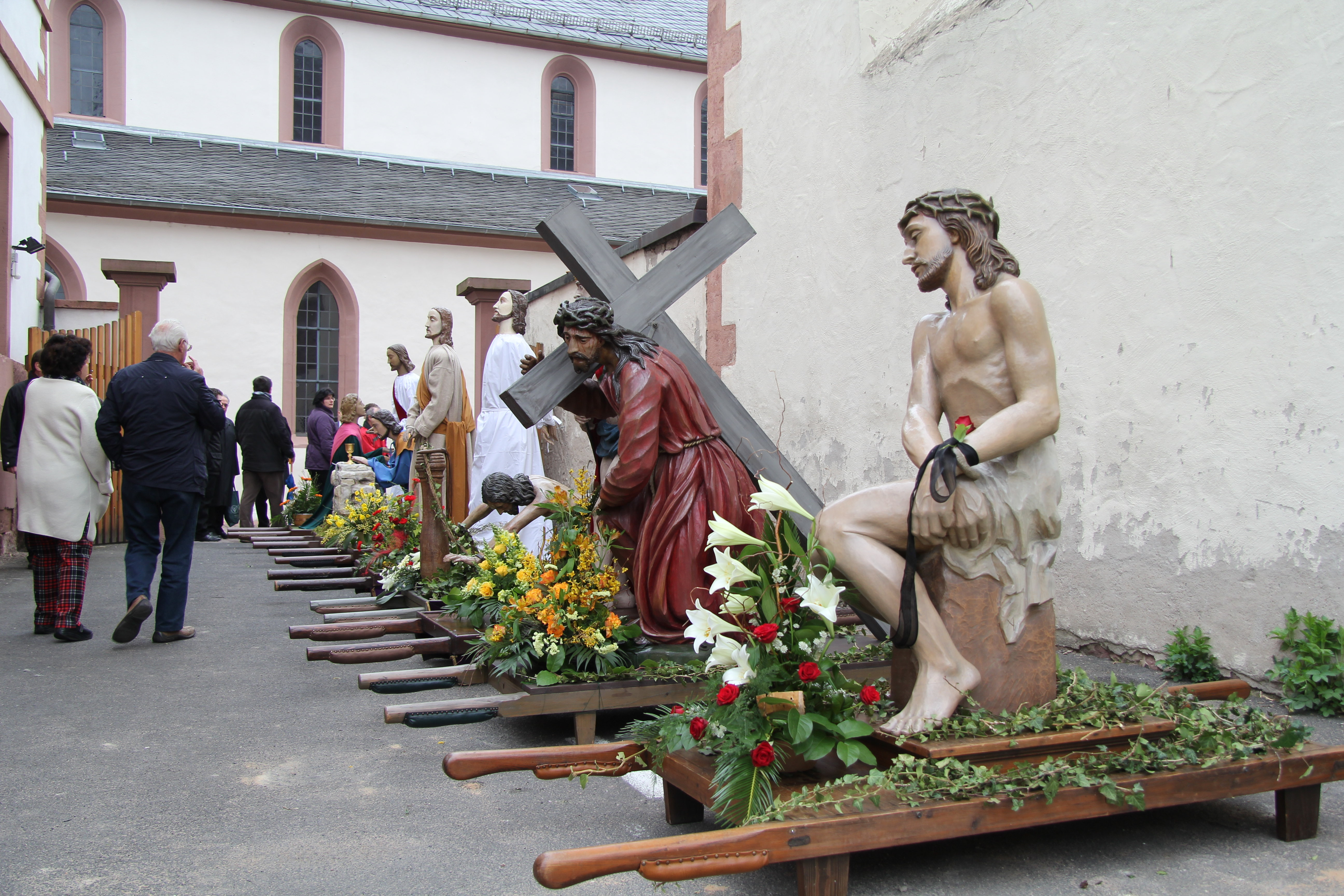 Life-size figures for the Good Friday procession in Lohr am Main in Bavaria, Germany